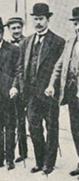 Minister of Education of Portugal, João Lopes da Silva Martins Júnior, in June, 1915.